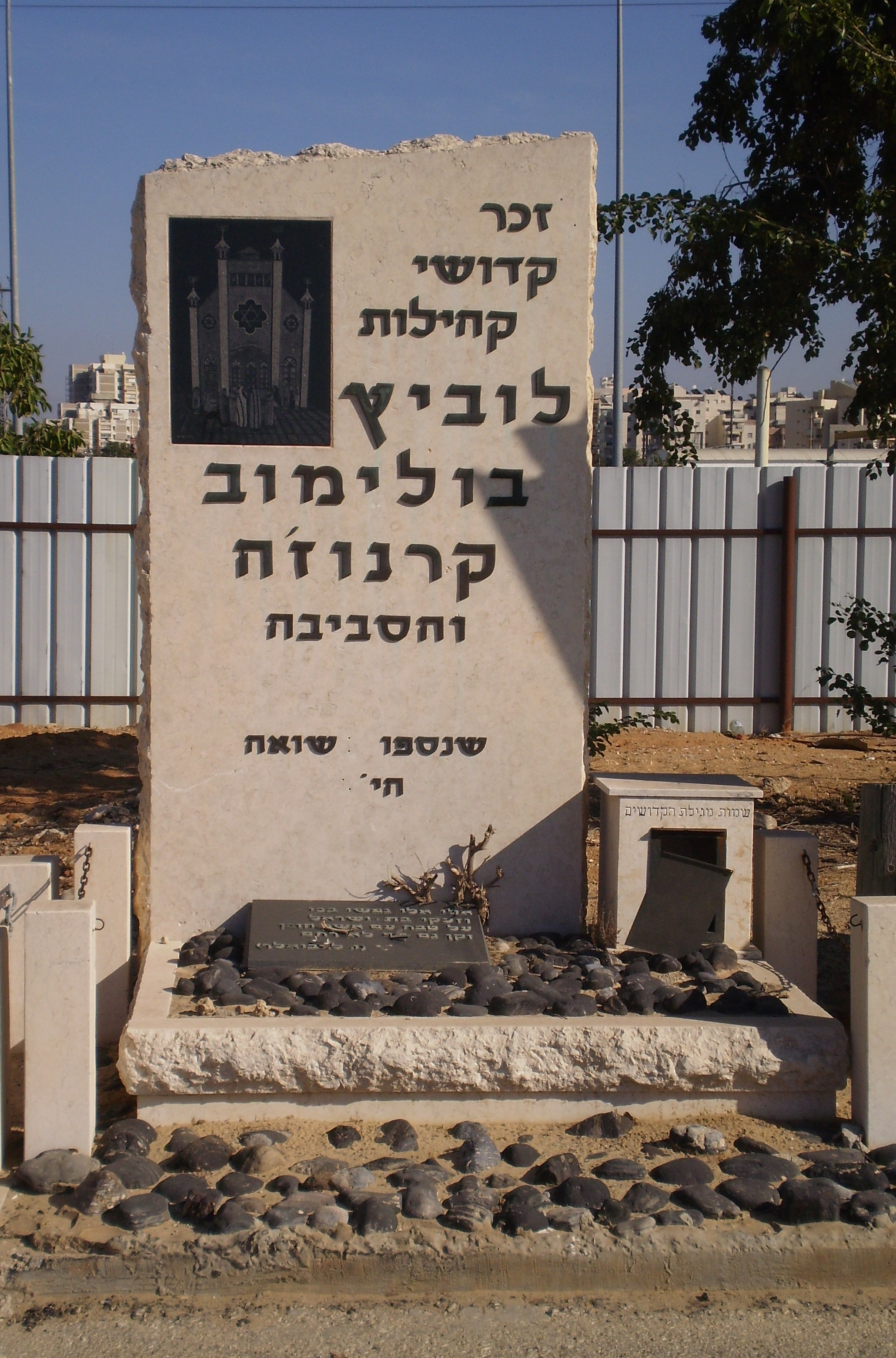 Łowicz, Bolimów and Kiernozia Jewery Holocaust memorial at Holon Cemetery